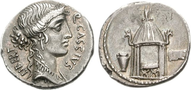 Roman republic, Q. Cassius Longinus. 55 BC. AR Denarius (3.81 g, 8h). Rome mint. Head of Libertas right, wearing cruciform earring and necklace of pendants, hair in knot, and in loose locks over forehead, jewels in hair; LIBERT behind, Q • CASSIVS before Temple of Vesta: hexastyle temple with conical roof surmounted by figure holding patera in right hand and scepter in left, curule chair within; two-handled urn to left, raised tablet inscribed [A]C (Absolvo Condemno) to right.